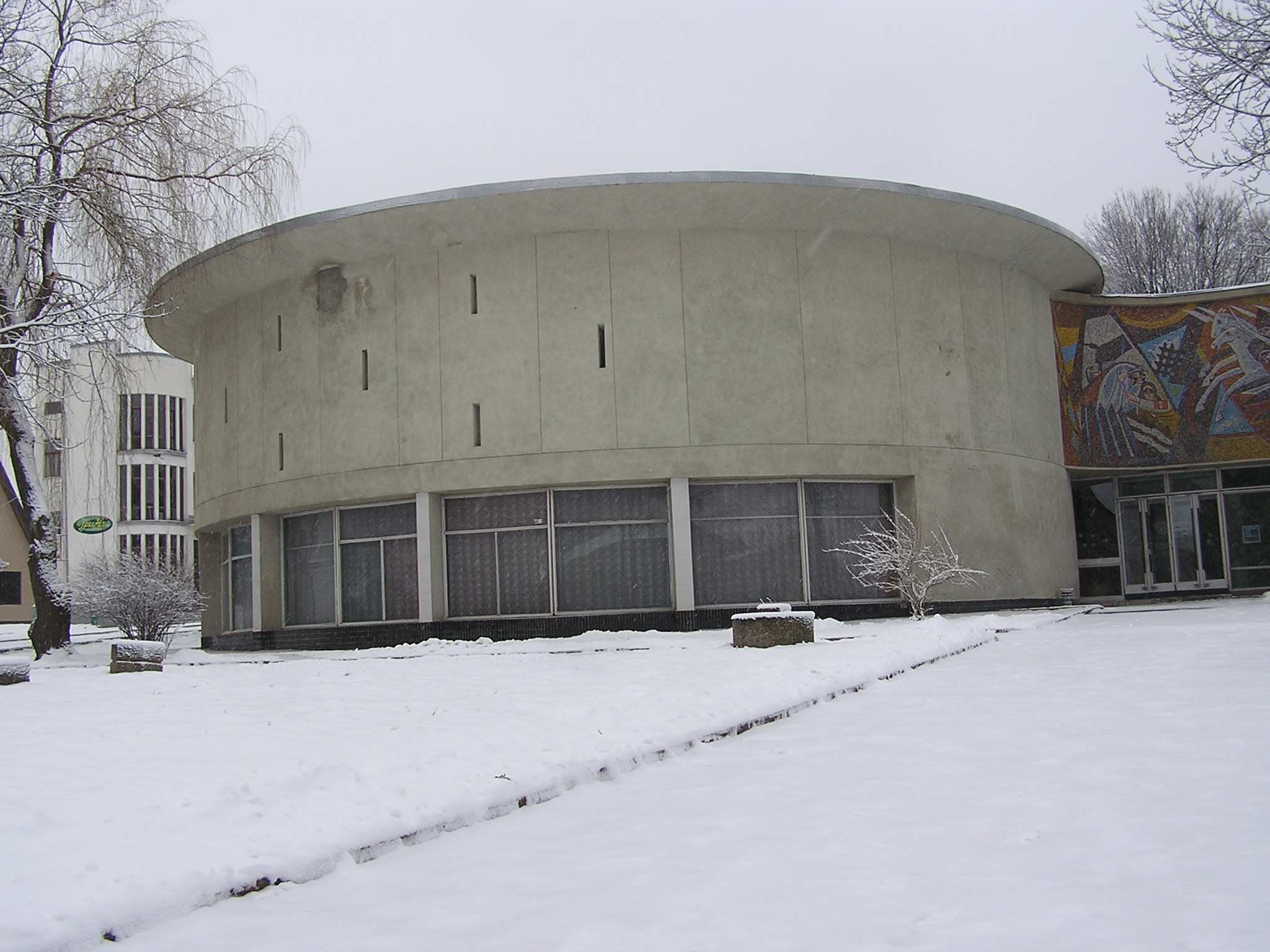 Truskavets